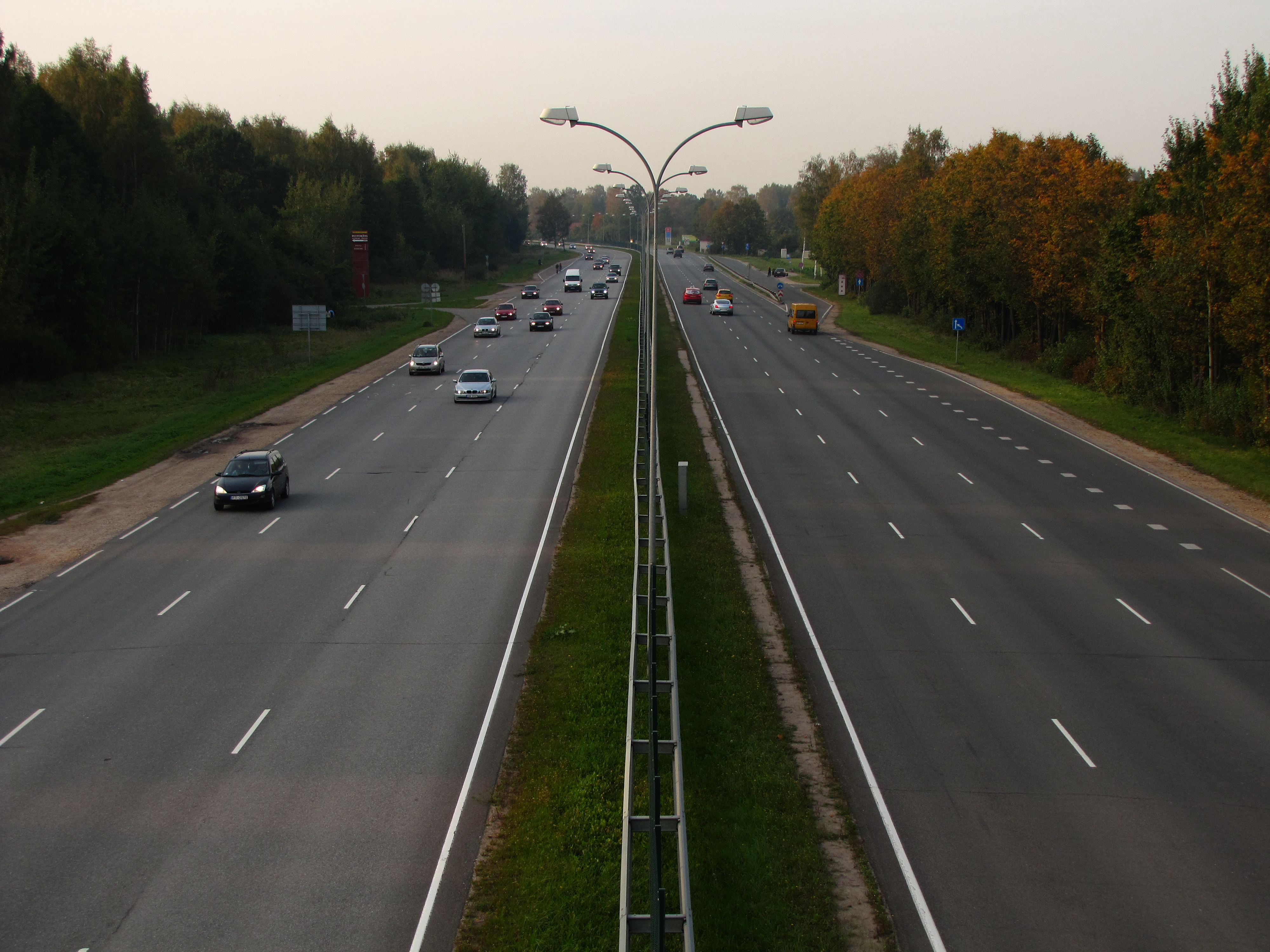 Seaside highway